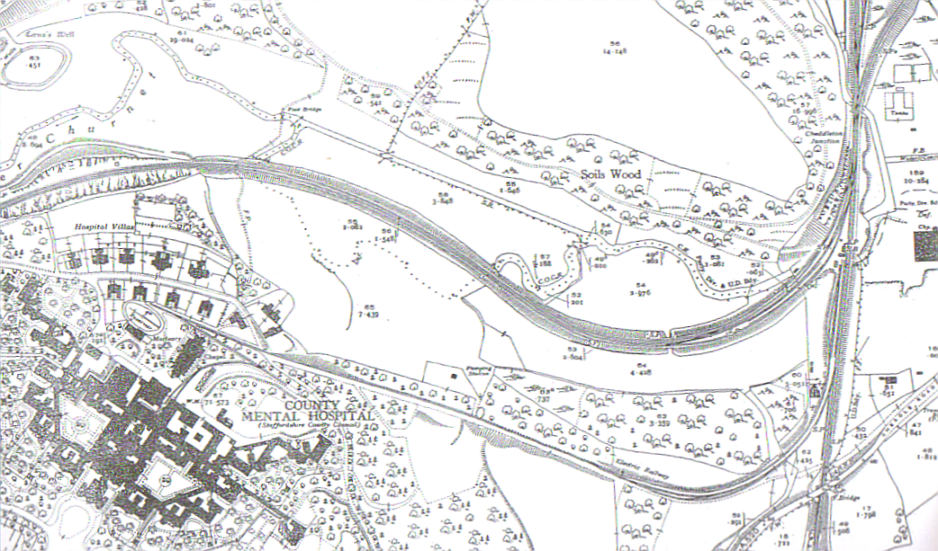 Scan of 1925 series 1:2500 Ordnance Survey map showing the Staffordshire County Mental Asylum at Cheddleton